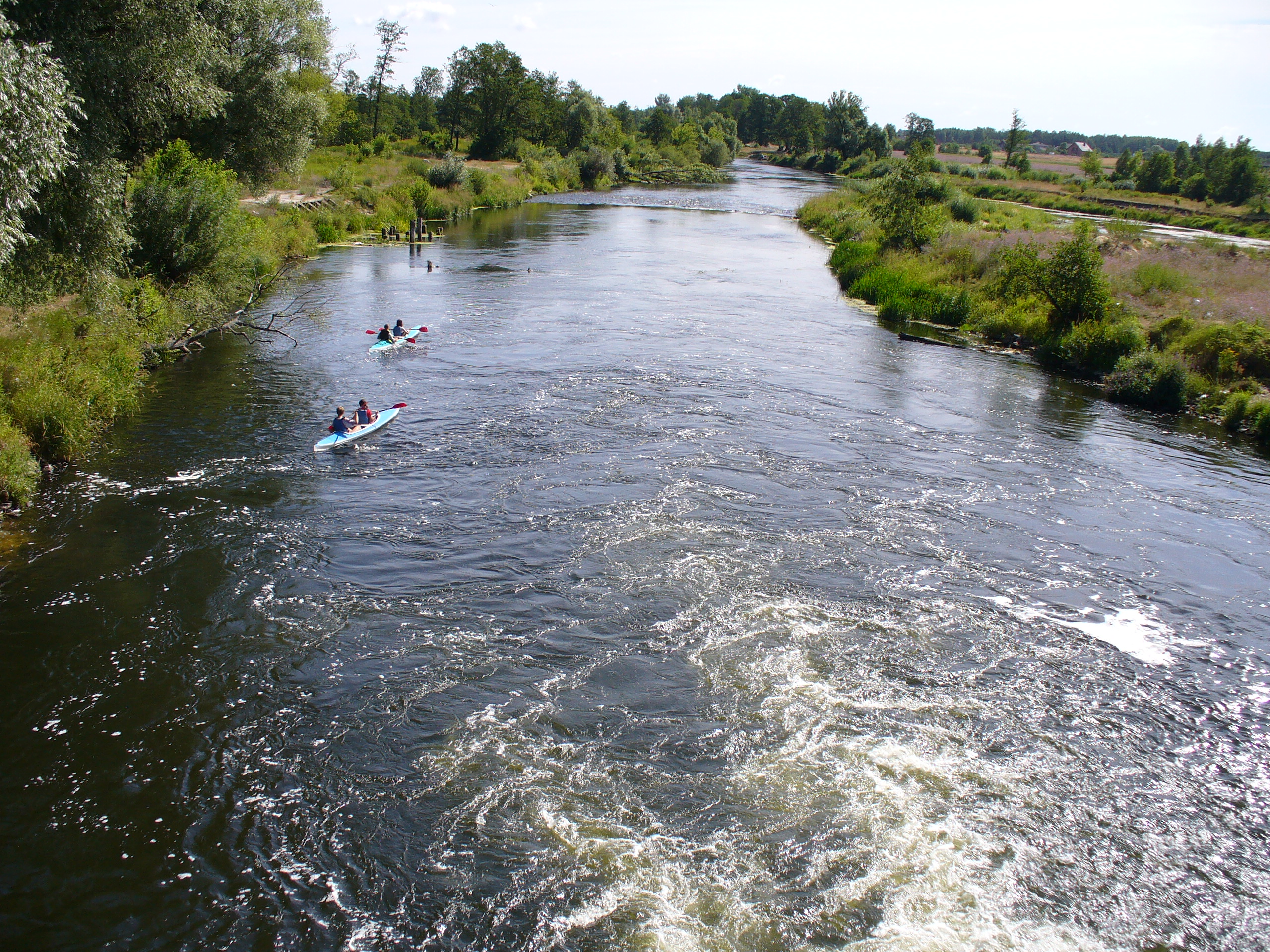 Kayaks on Pilica River in Tomaszów Mazowiecki, Poland.